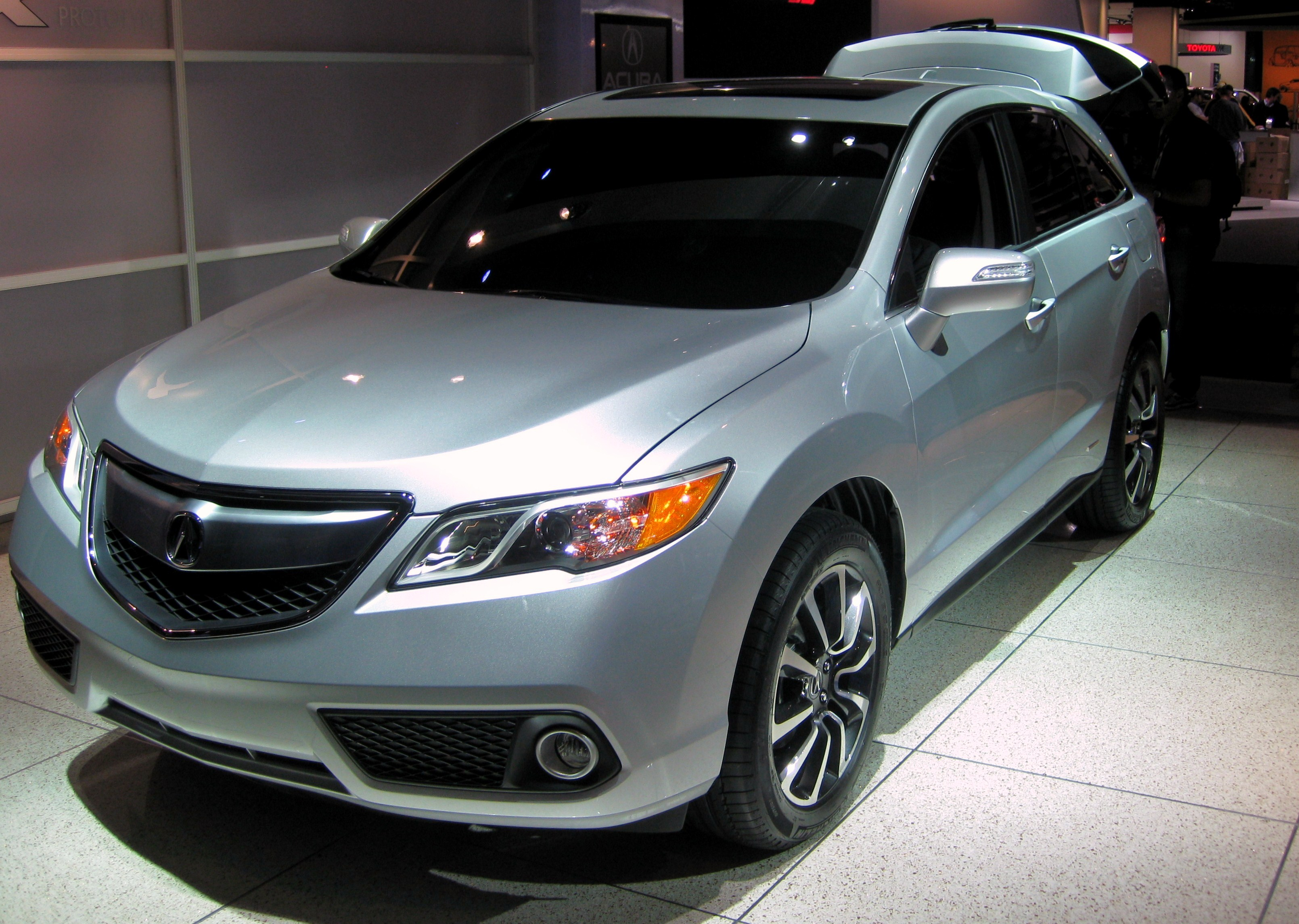 For more info and images please check